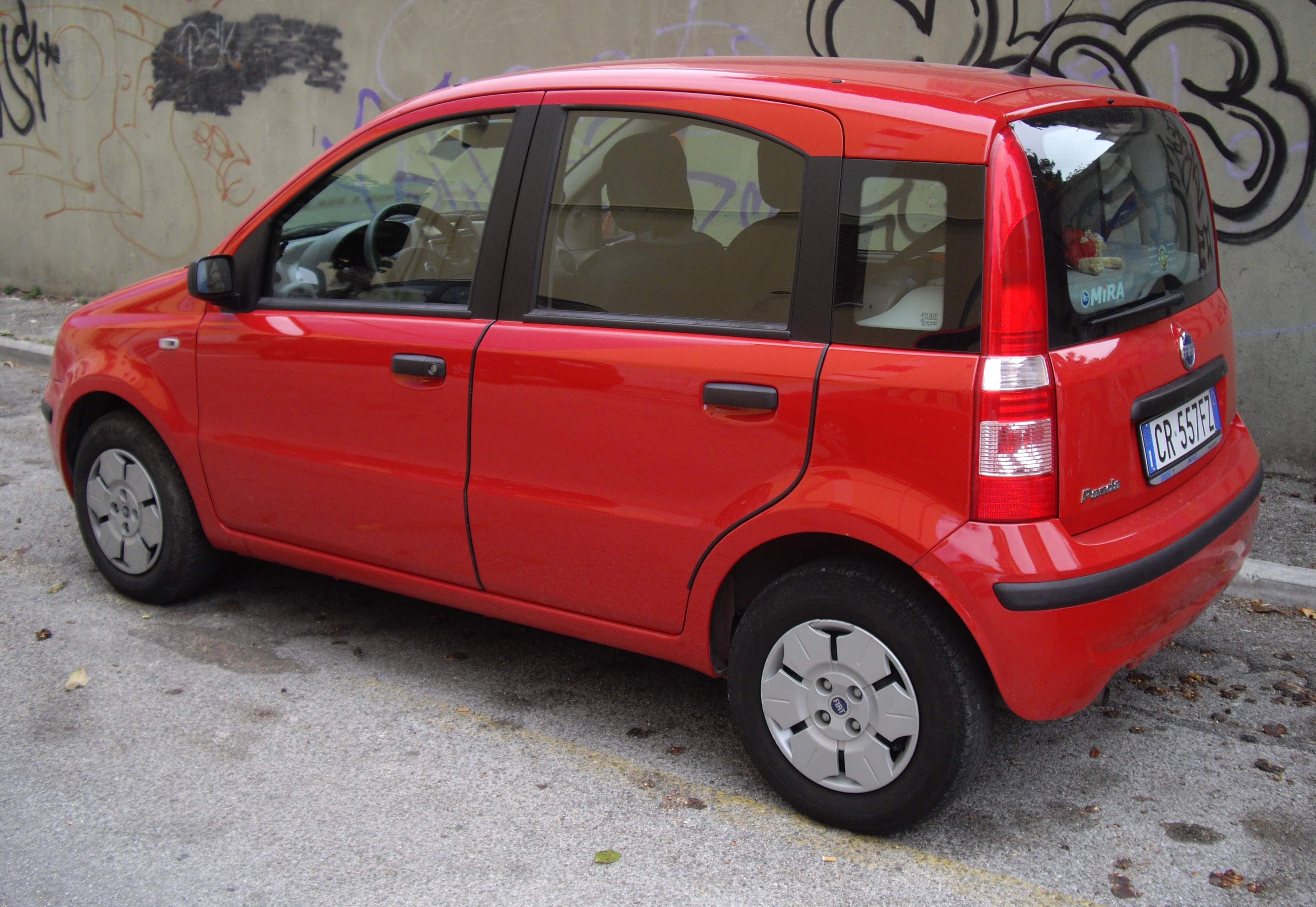 Fiat Panda 2005 1.1 Fire Active.